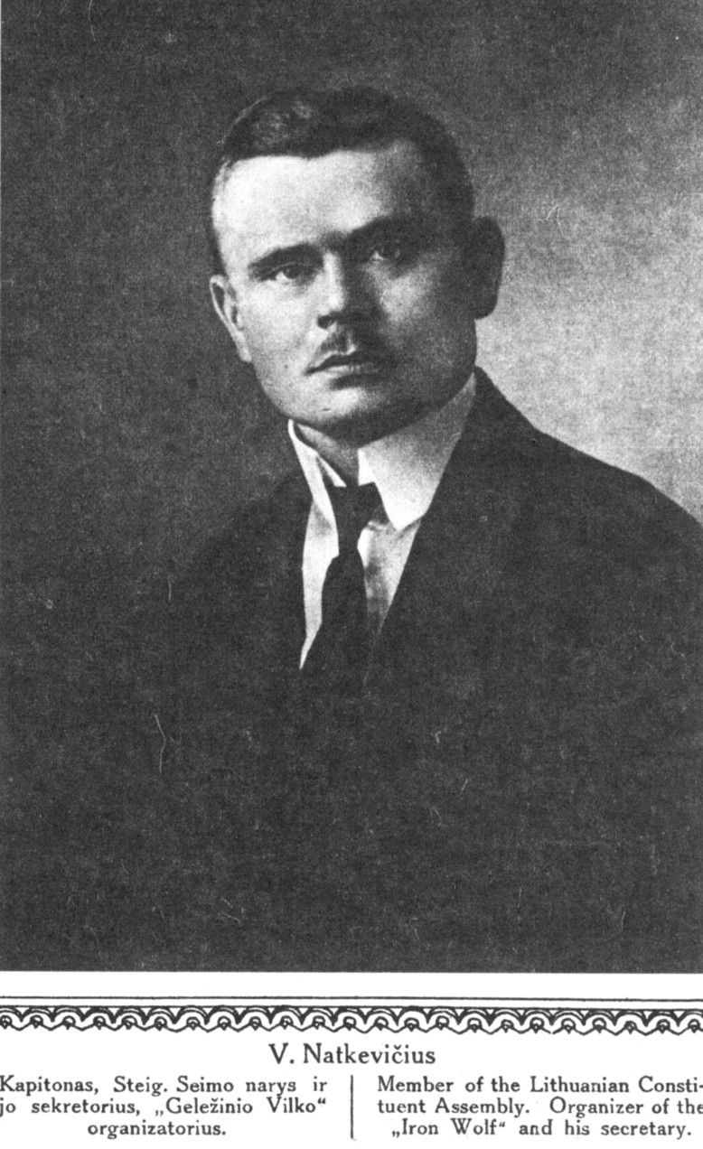 Ladas (Vladas) Natkevičius, member of Constituent Assembly of Lithuania and Lithuanian Seimas, diplomat, lawyerLietuvių: Ladas Natkevičius, Lietuvos Steigiamojo Seimo atstovas, diplomatas, teisininkas, politinis ir visuomenės veikėjas